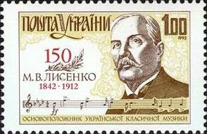 Stamp of Ukraine